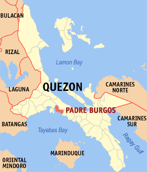 Map of Quezon showing the location of Padre Burgos